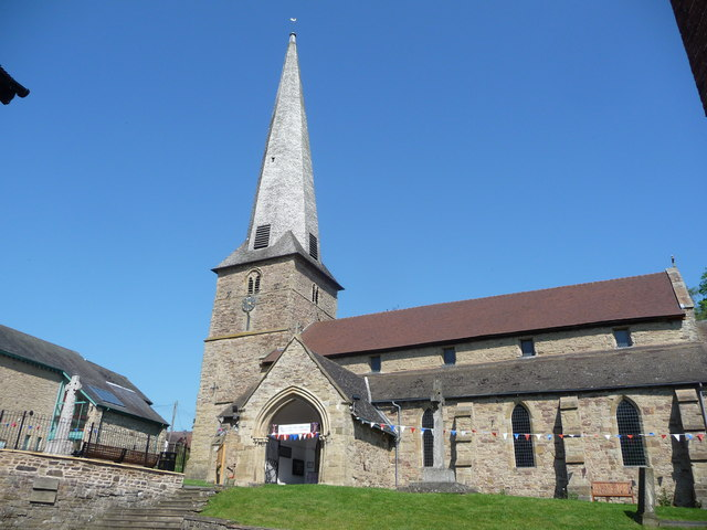 Photograph of St Mary's Church, Cleobury Mortimer